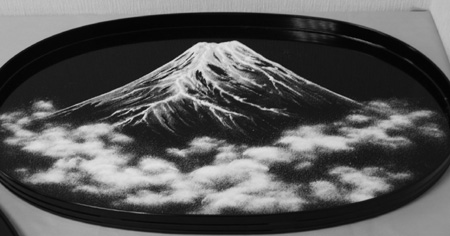 Bonseki (original:I took the following photo which is also used on OhMyNews)